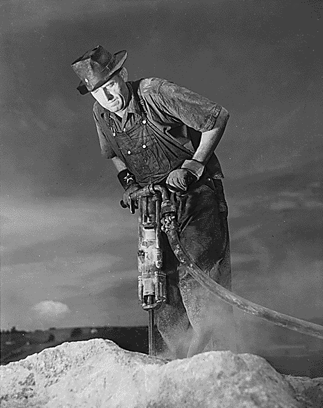 Drilling a blast hole with a jackhammer in 1942. Tennessee Valley Authority Douglas Dam project on the French Broad River Sevier County in East Tennessee in the foothills of the Great Smoky Mountains.